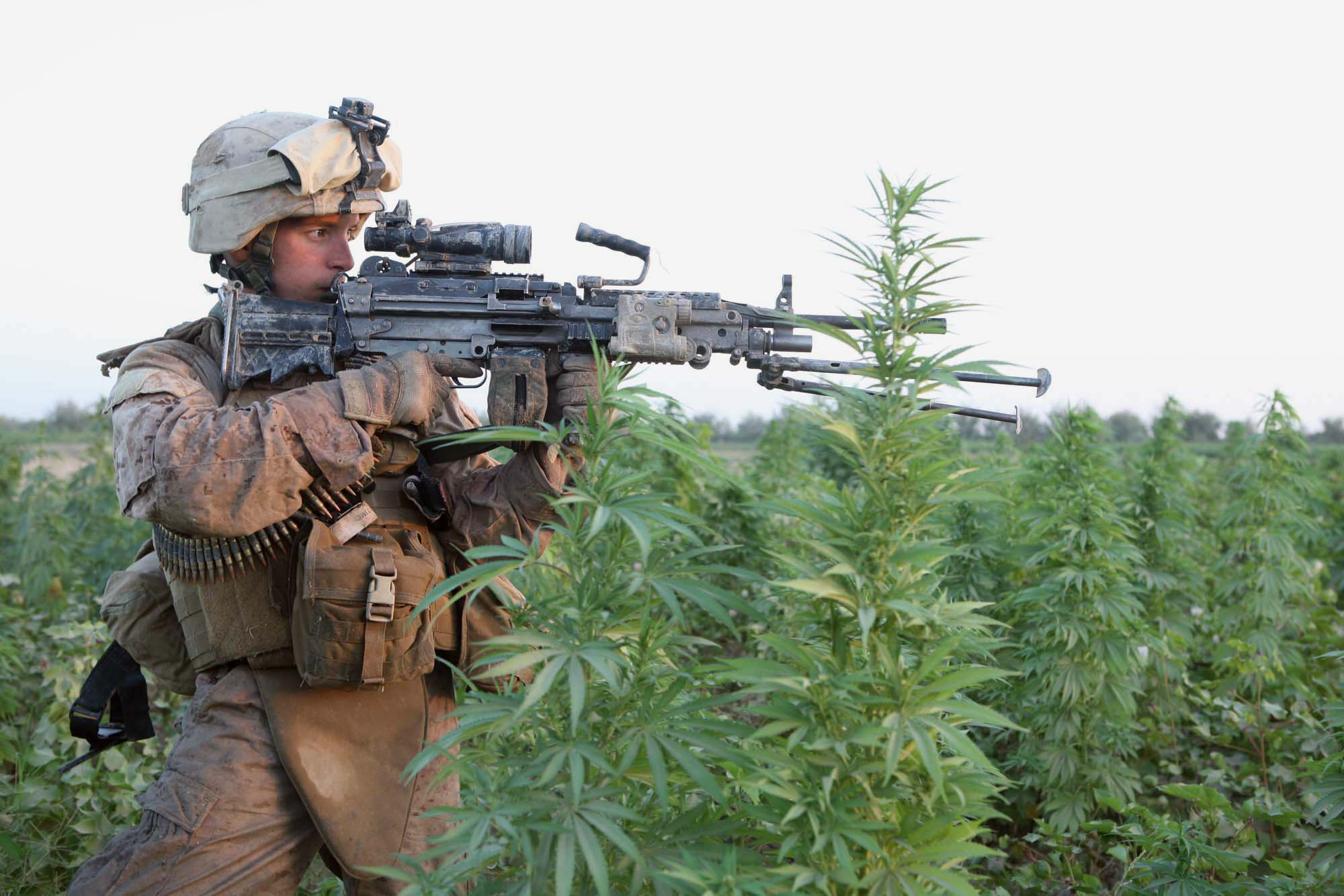 Lance Cpl. Taylor M. Boyd, a squad automatic weapon gunner with Company E, 2nd Battalion, 6th Marine Regiment, sights his weapon down a field during a patrol in Marjah, Afghanistan, Aug. 15, 2010. Boyd, 19, is from Ellenboro, N.C.